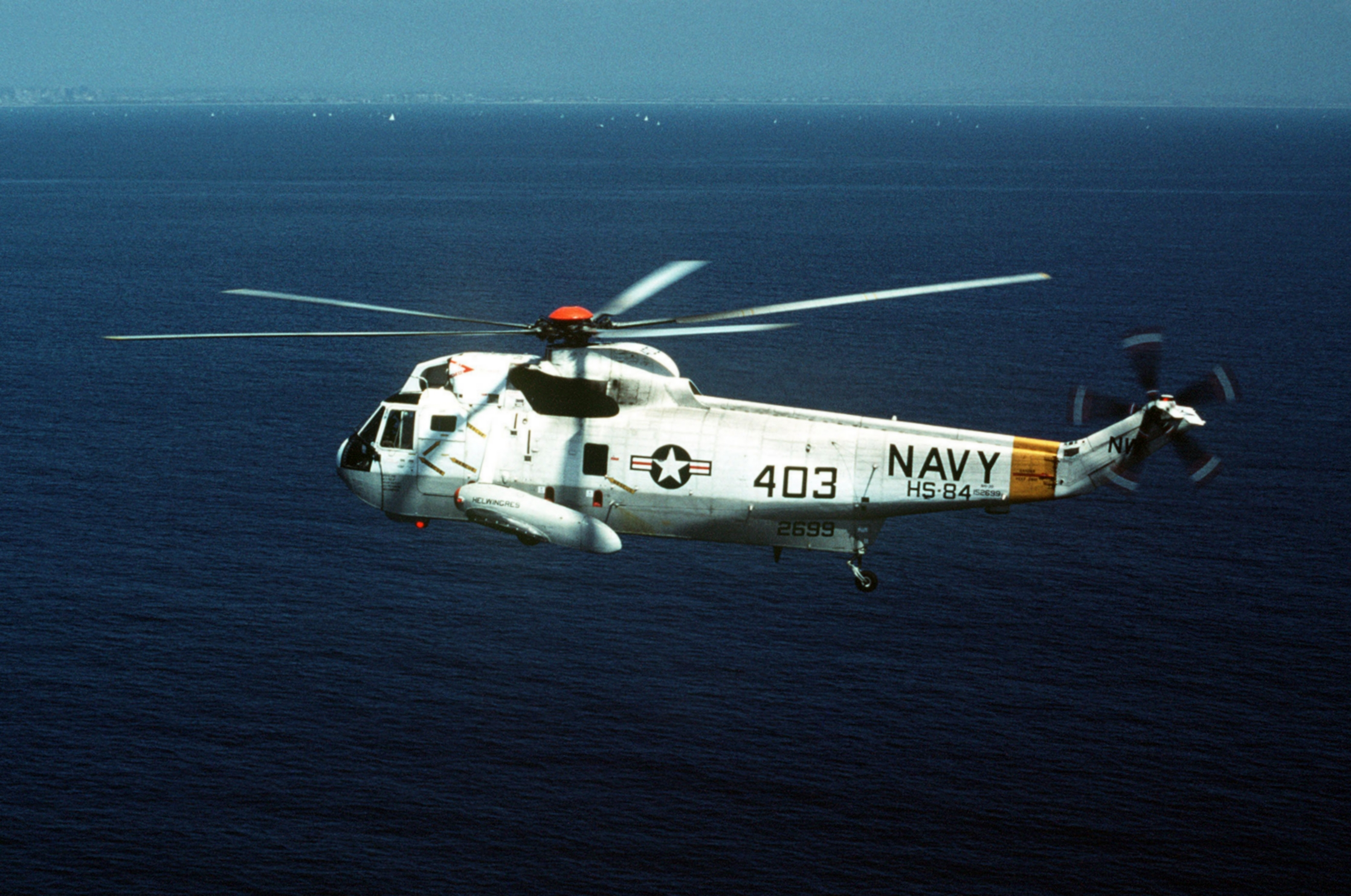 A U.S. Naval Reserve Sikorsky SH-3D Sea King (BuNo 152699) of Helicopter Antisumbarine Squadron HS-84 "Thunderbolts" during flight operations, in 1983.